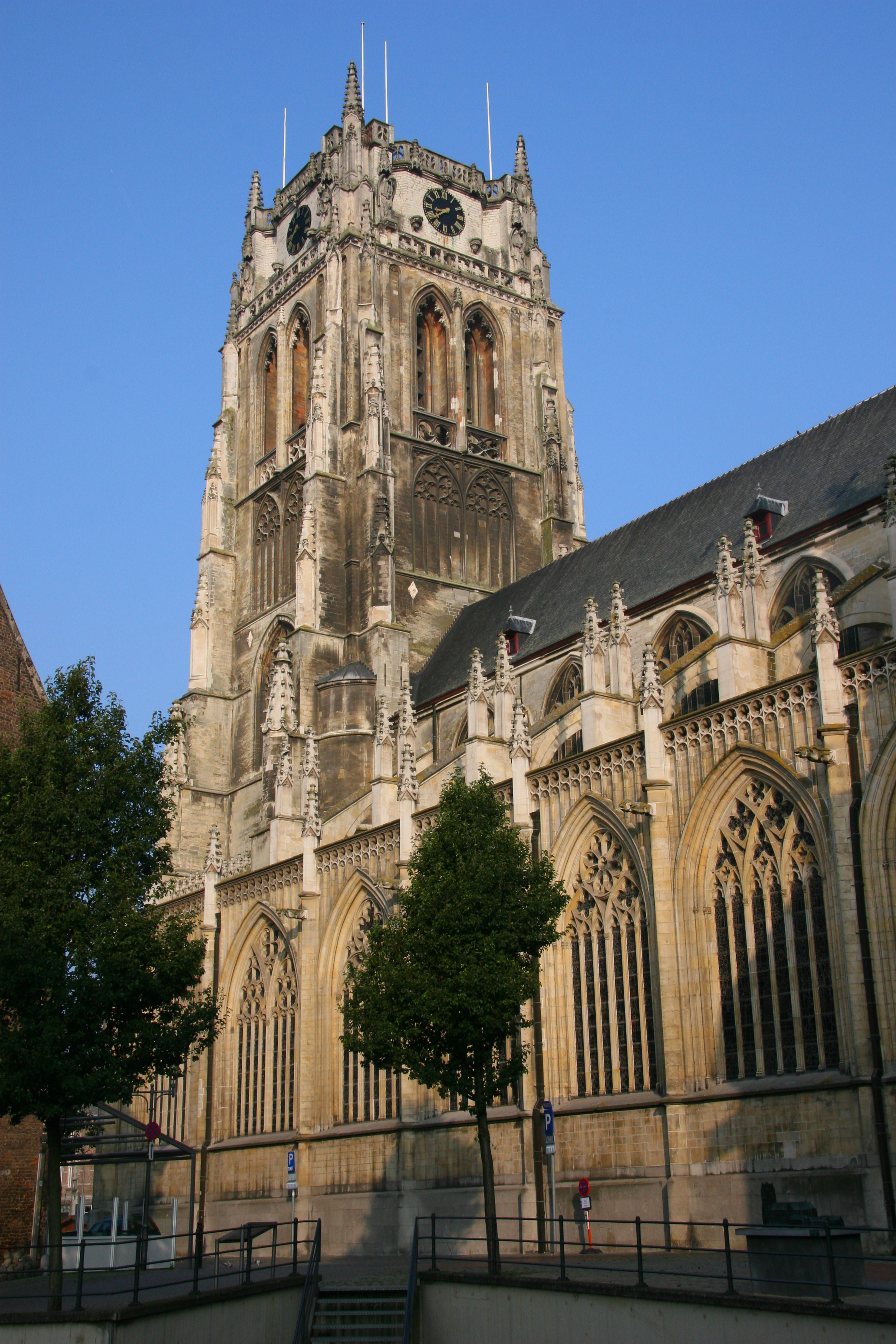 Onze-Lieve-Vrouwe Basiliek in Tongeren